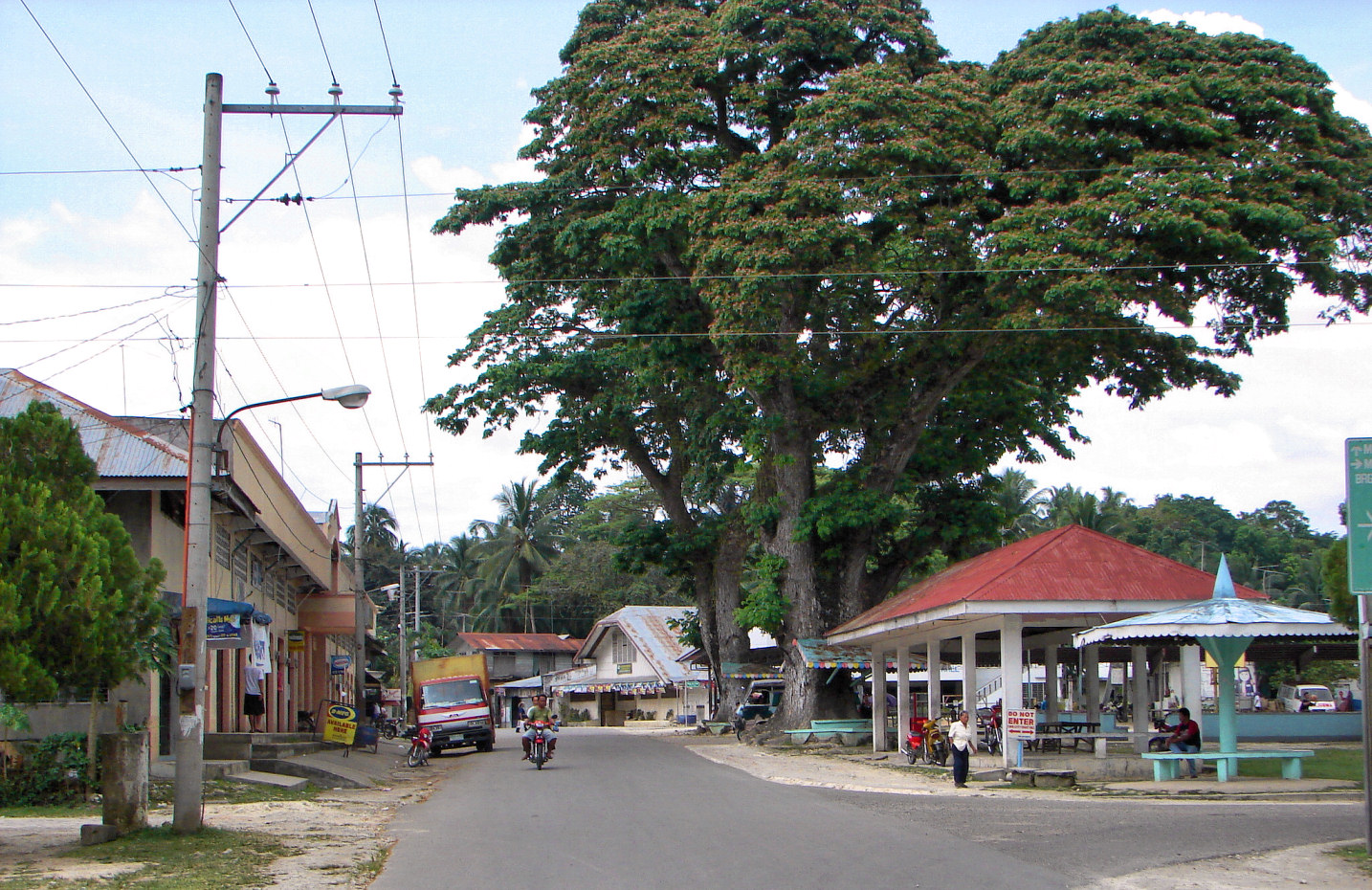 Poblacion of Antequera, Bohol, the Philippines